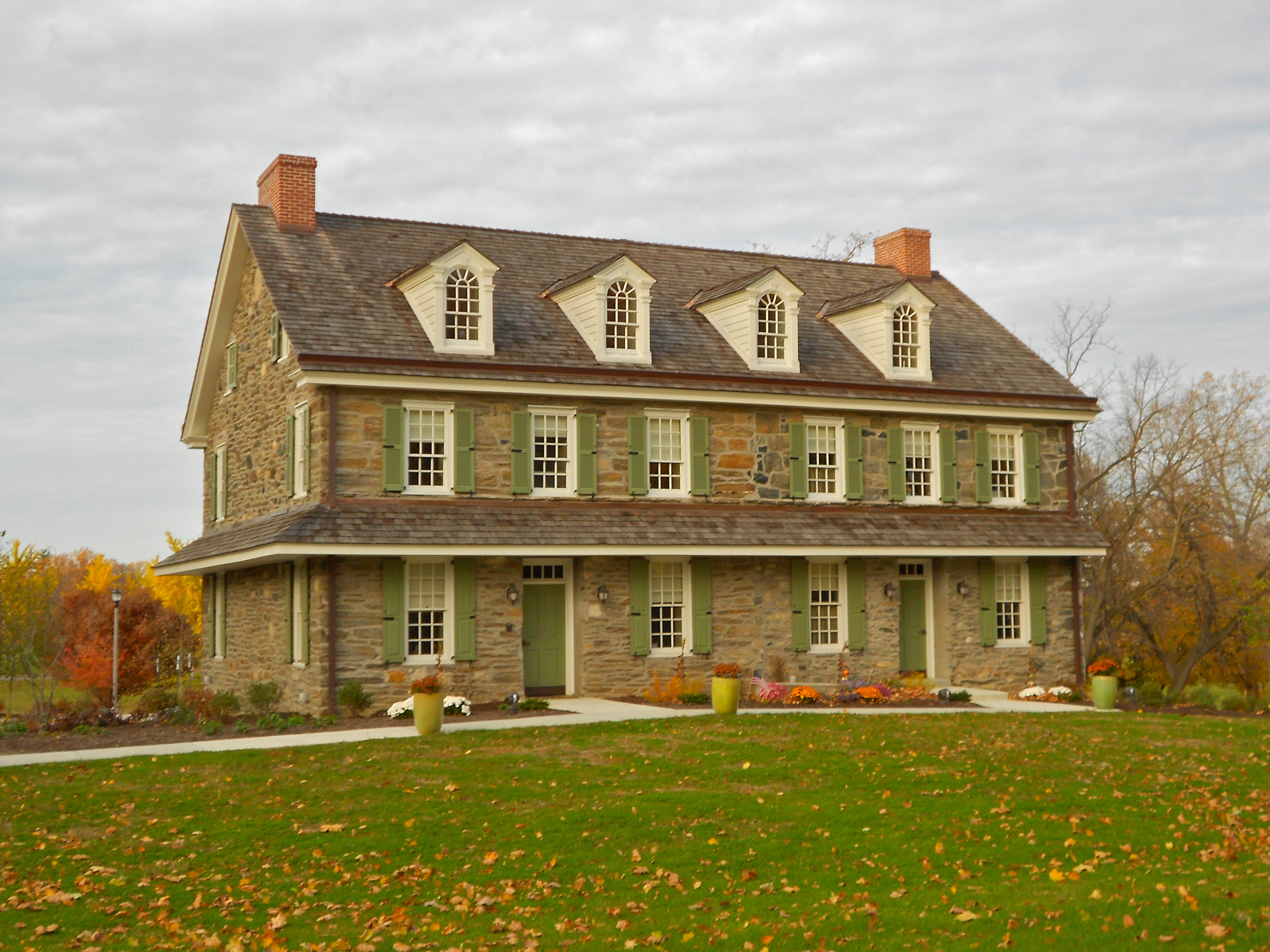 Old Rose Tree Tavern listed on the NRHP on June 21, 1971 Northeast of junction of Rose Tree and Providence Roads, just north of Media. Inside Rose Tree Park